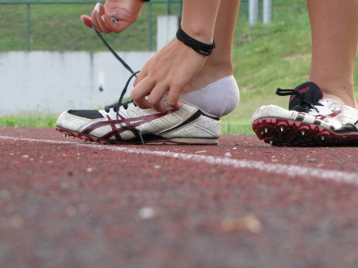 A girl putting on her pair of spikes.